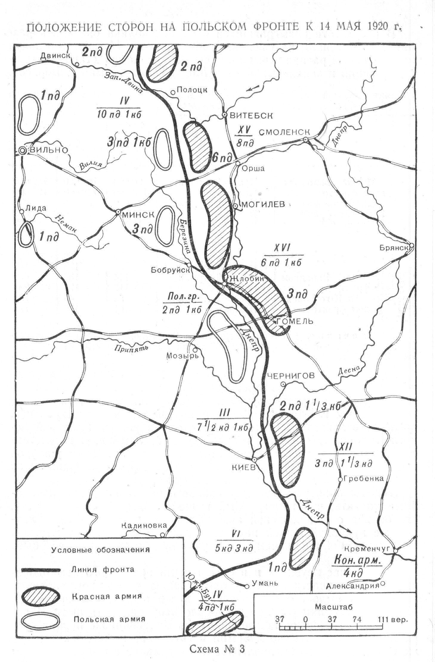 Polish-Soviet front 14.05.1920